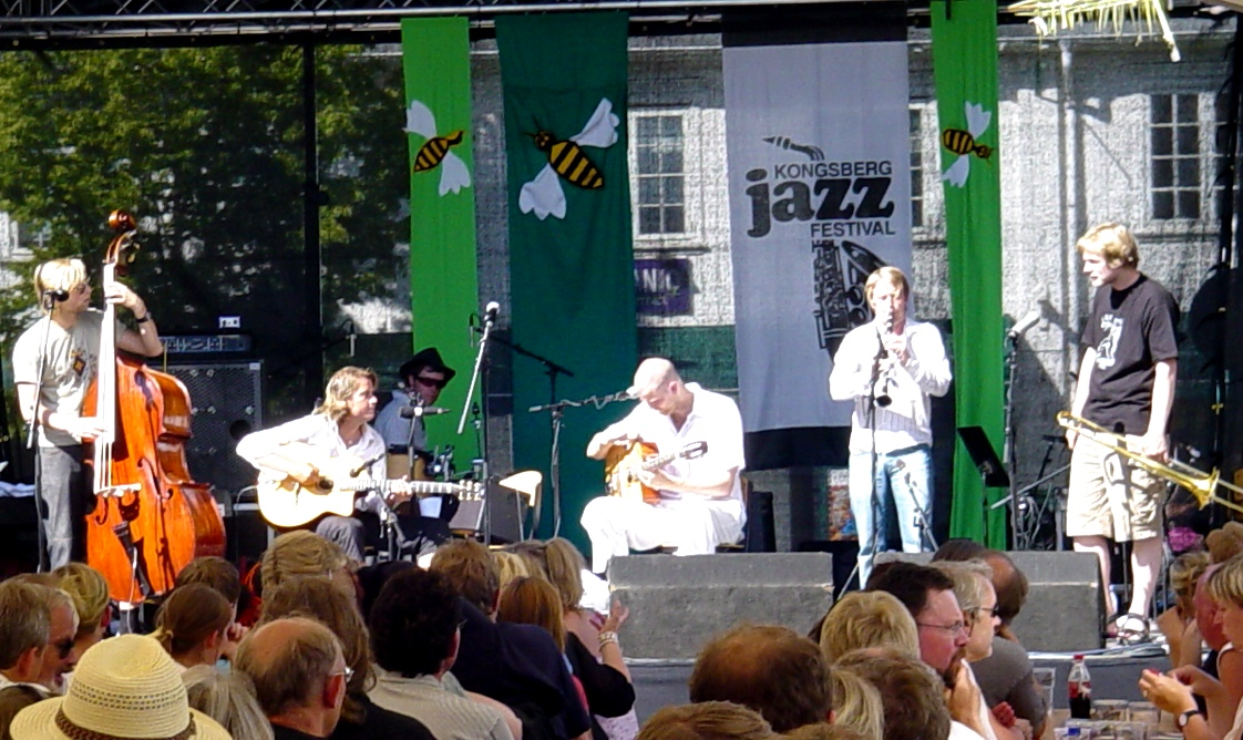 Christianssand String Swing ensemble at Kongsberg Jazz festival 2005 Norsk (bokmål): Christianssand String Swing ensemble på Kongsberg Jazzfestival 2005